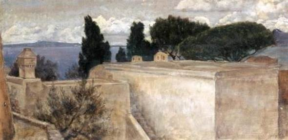 Village with Cypresses